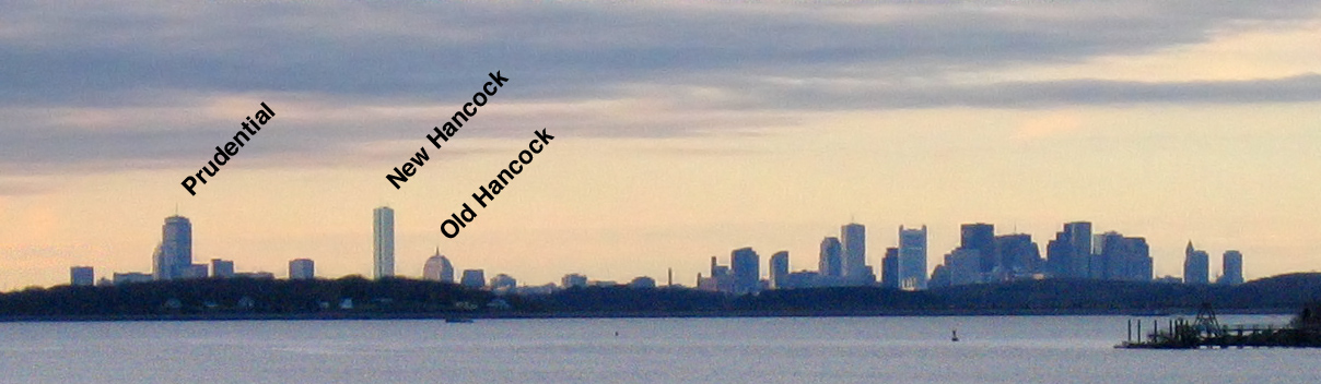 Boston skyline as seen from World's End in Hingham. Copyright ©2006 by Daniel P. B. Smith and released under the GDFL.